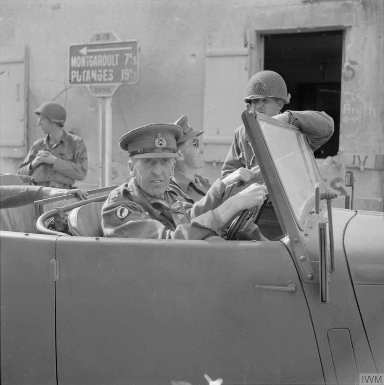 The British Army in Normandy 1944 General Horrocks, GOC 30 Corps, in his staff car with American troops in Argentan, 21 August 1944.